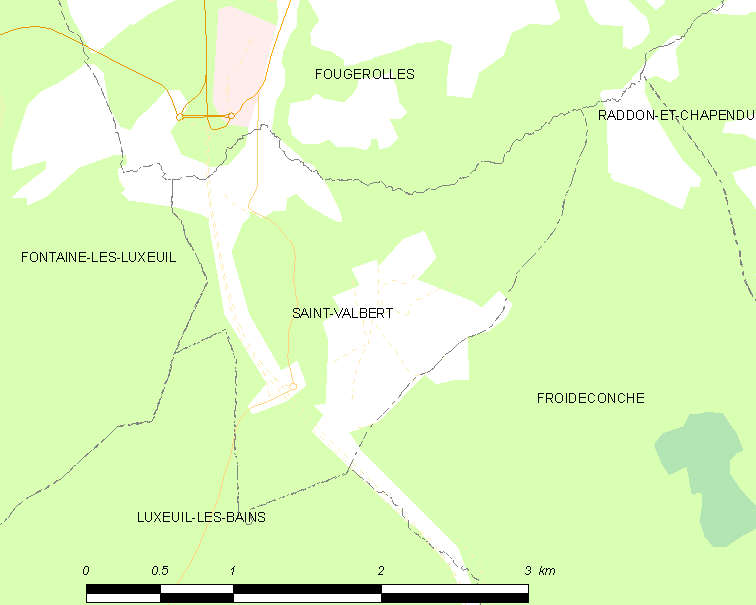 Map of French municipality